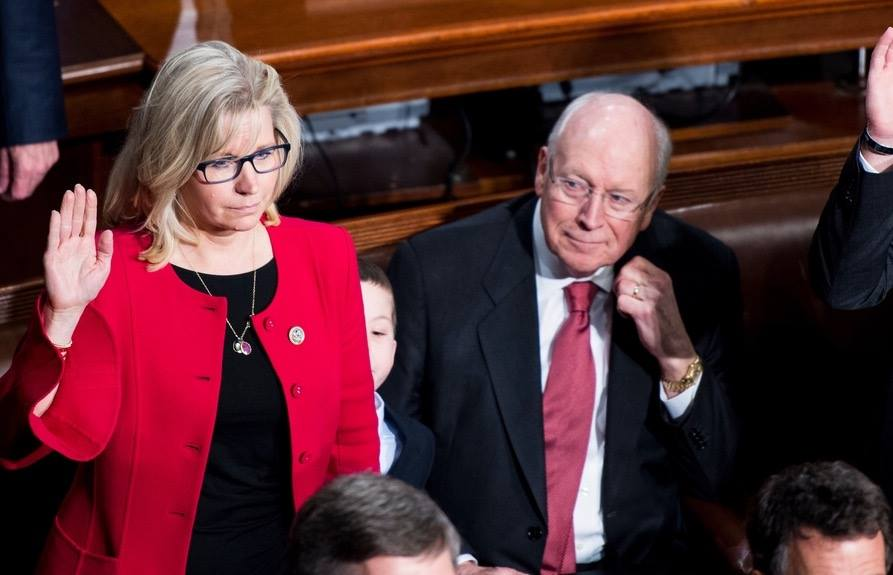 Liz Cheney oath of office